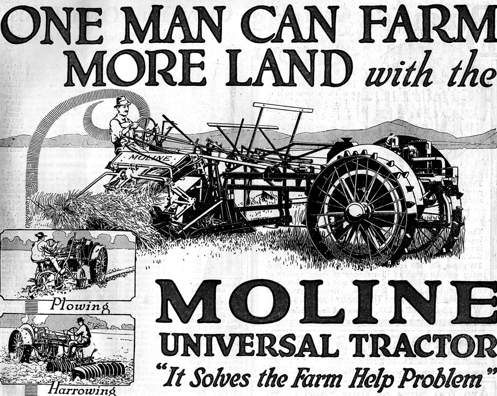 Moline Universal Tractor – The January 19, 1918 issue of Country Gentleman carried the ad for this innovative machine. Help was scarce during that World War I year.